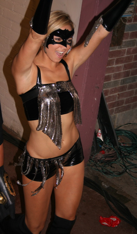 Stacy Keibler under her Super Stacy persona during a WWE house show held in Kitchener, Ontario, Canada on August 12, 2005.